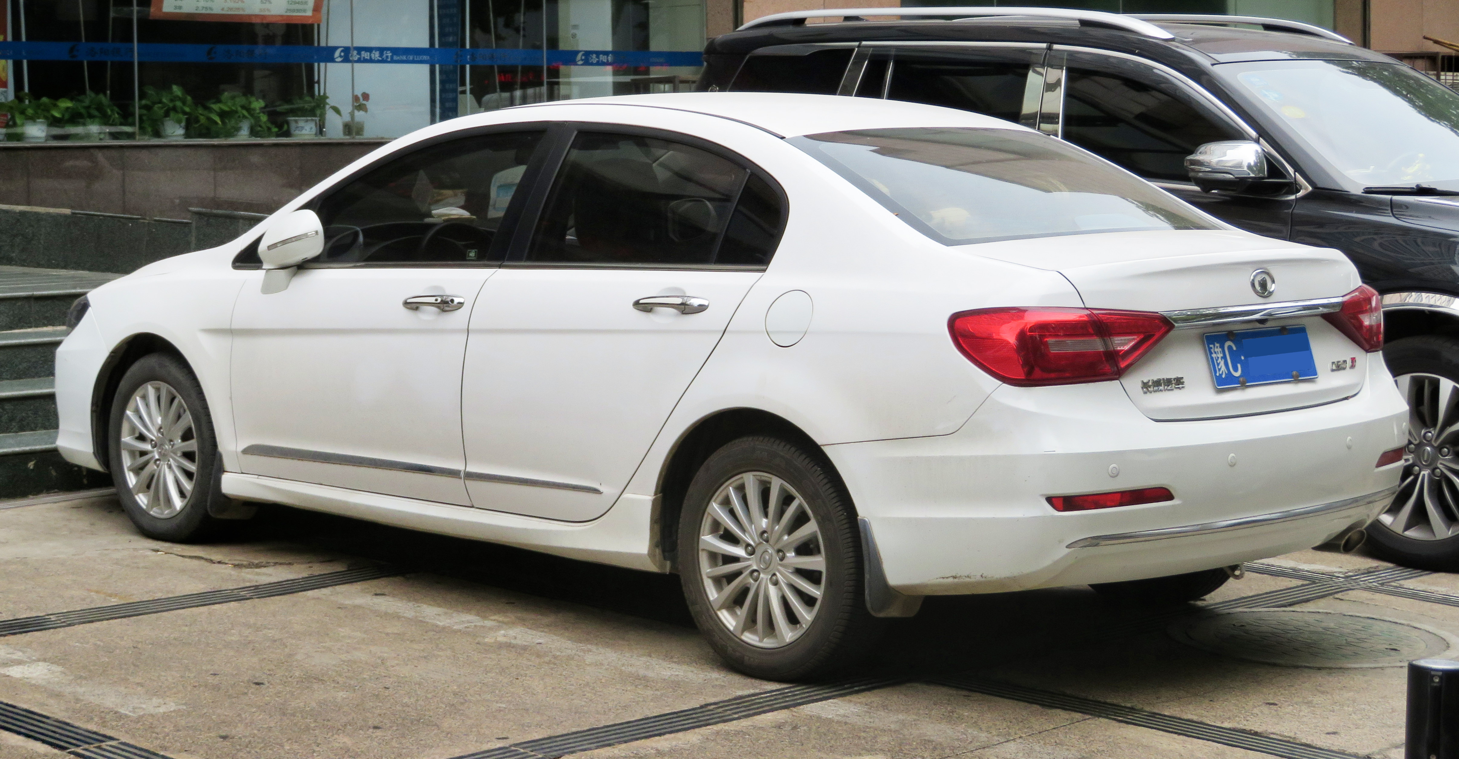 A 2016 Great Wall Voleex C50 (facelift) photographed in Xigong District, Luoyang, Henan province, China